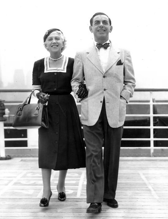 Photo of Eddie and Ida Cantor returning from a European trip in 1952.